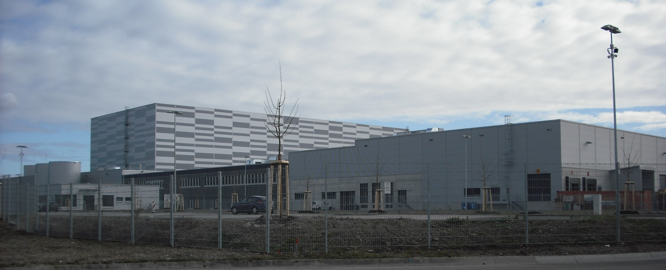 Woerth factory